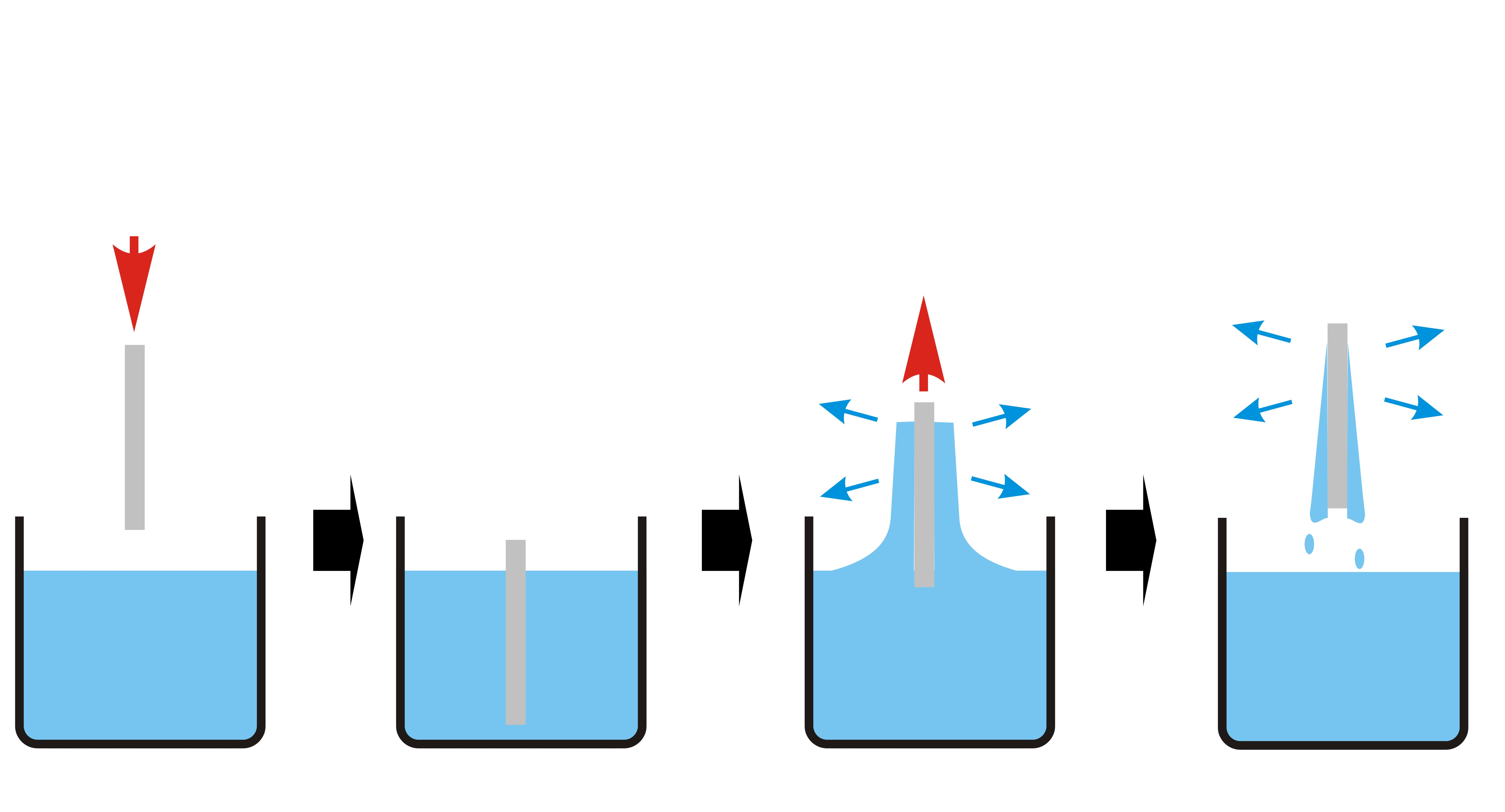 Schematic drawing "Dip Coating of Sols"